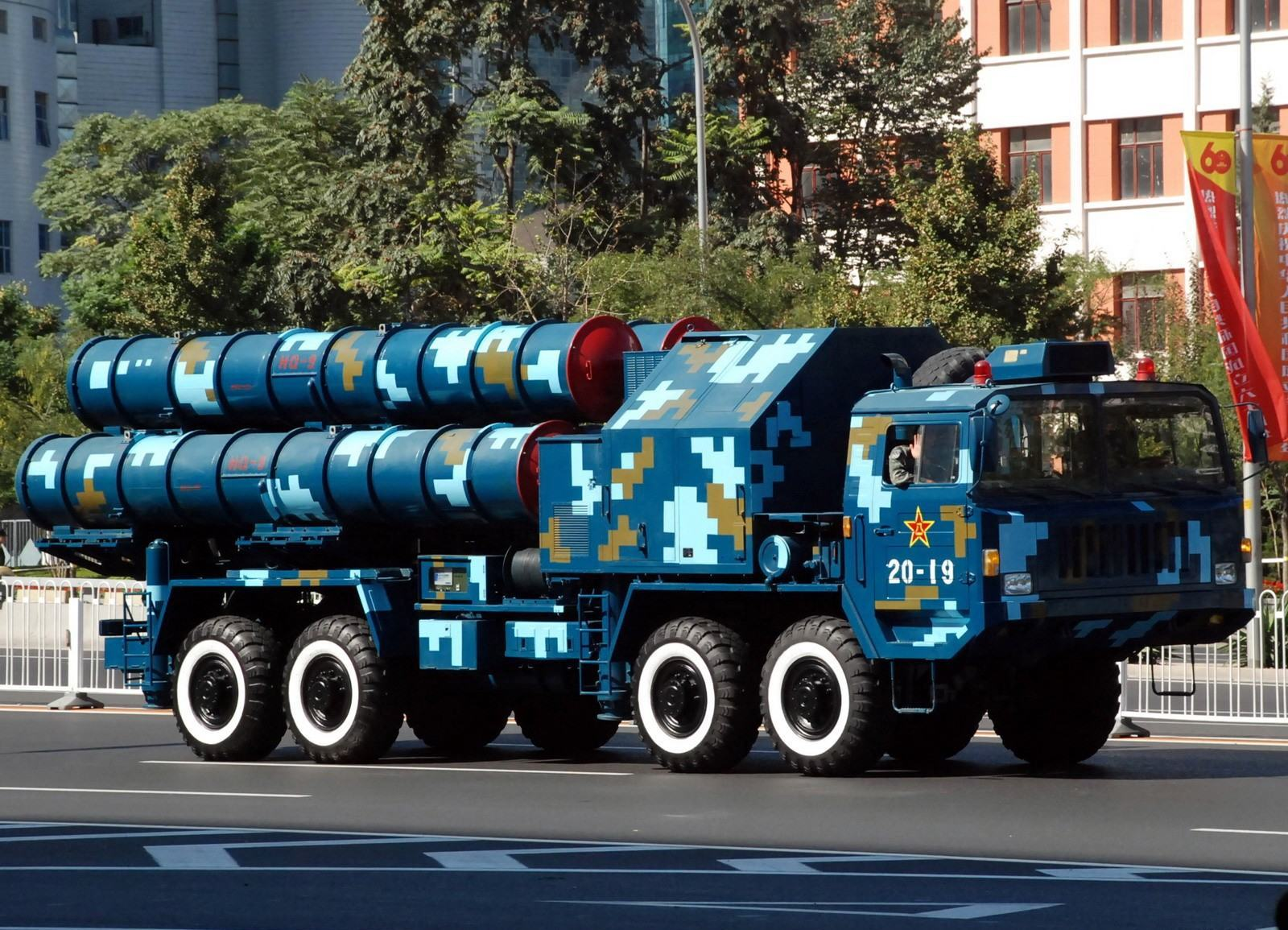 Chinese HongQi 9 [HQ-9] launcher during China's 60th anniversary parade, 2009.